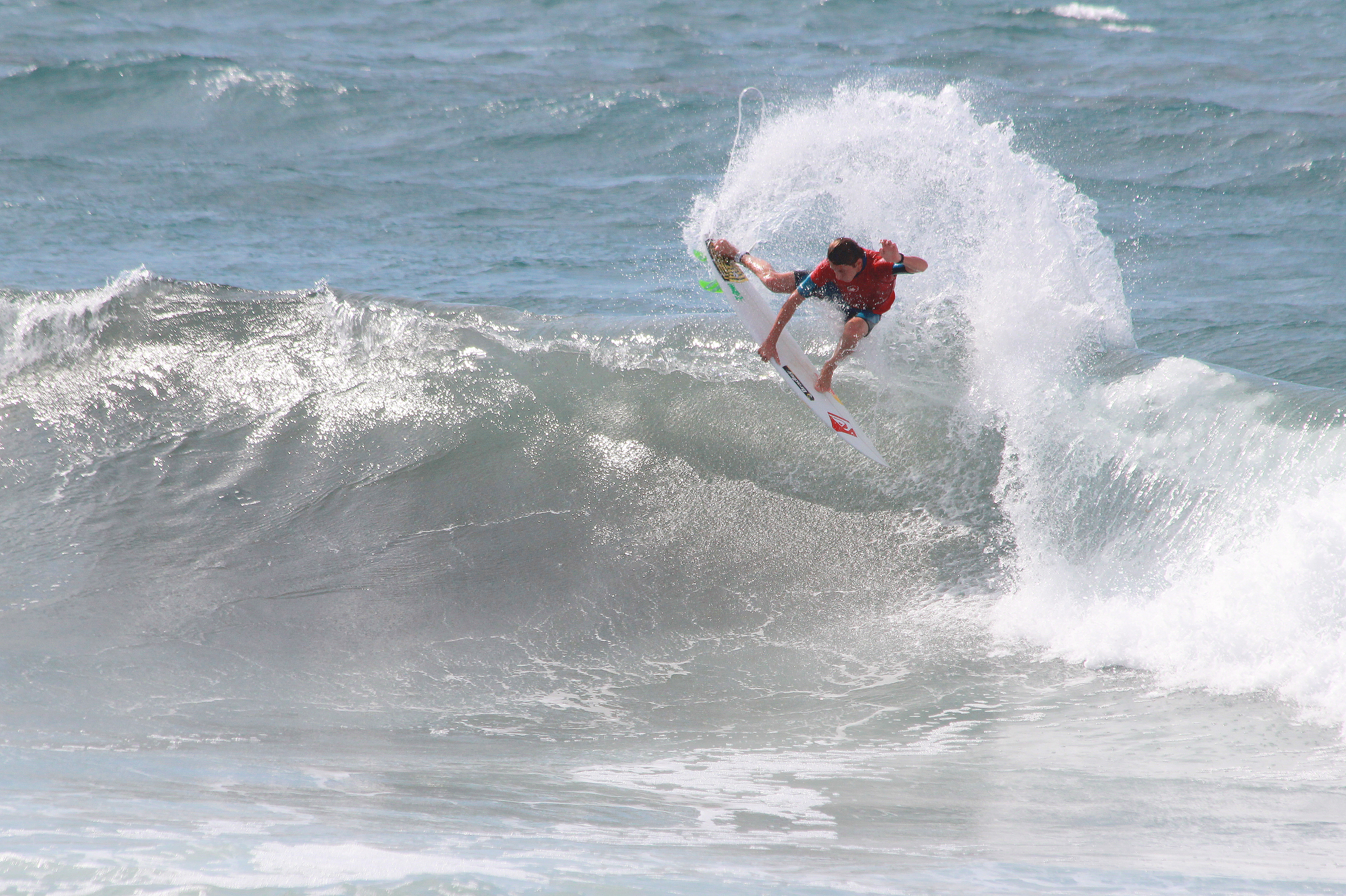 Italian young surfer Leonardo Fioravanti on a wave in Sardinia